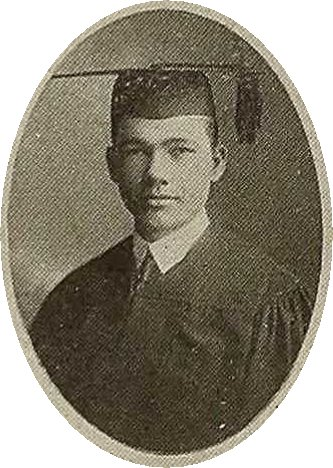 Ben D Wood 1922 graduation portrait - University of Texas